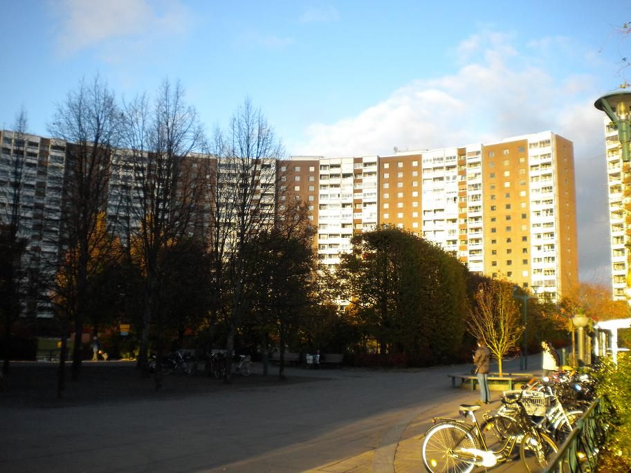 Storstugan Building (apartments), Täby, Sweden